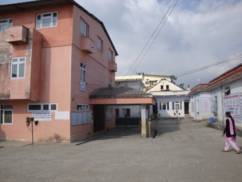 Dhankuta hospital as seen from the entrance.